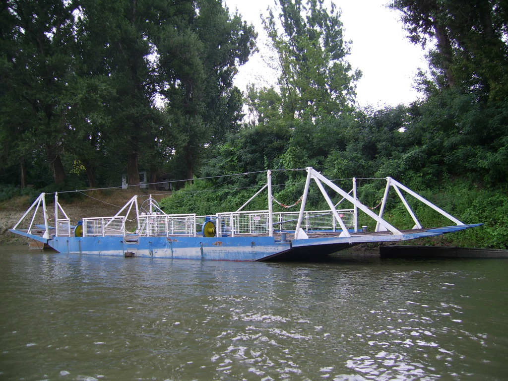 River ferry, Tiszainoka (Hungary)